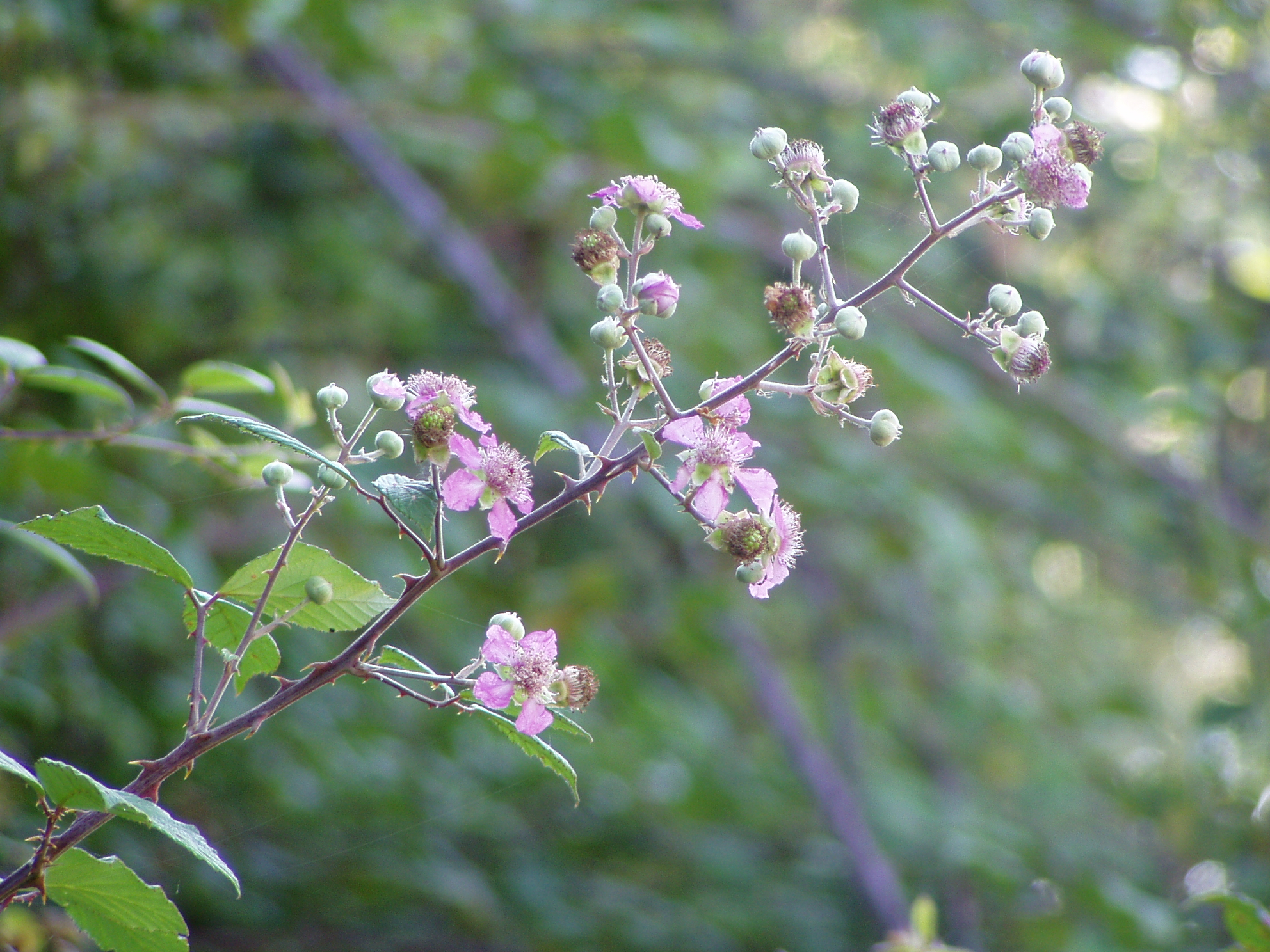 Bramble